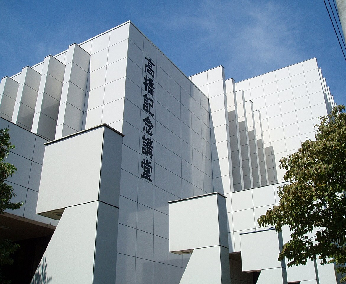 Takahashi Memorial Auditorium of Musashino Gakuin University and Musashino Junior College, located in Sayama, Saitama, Japan.